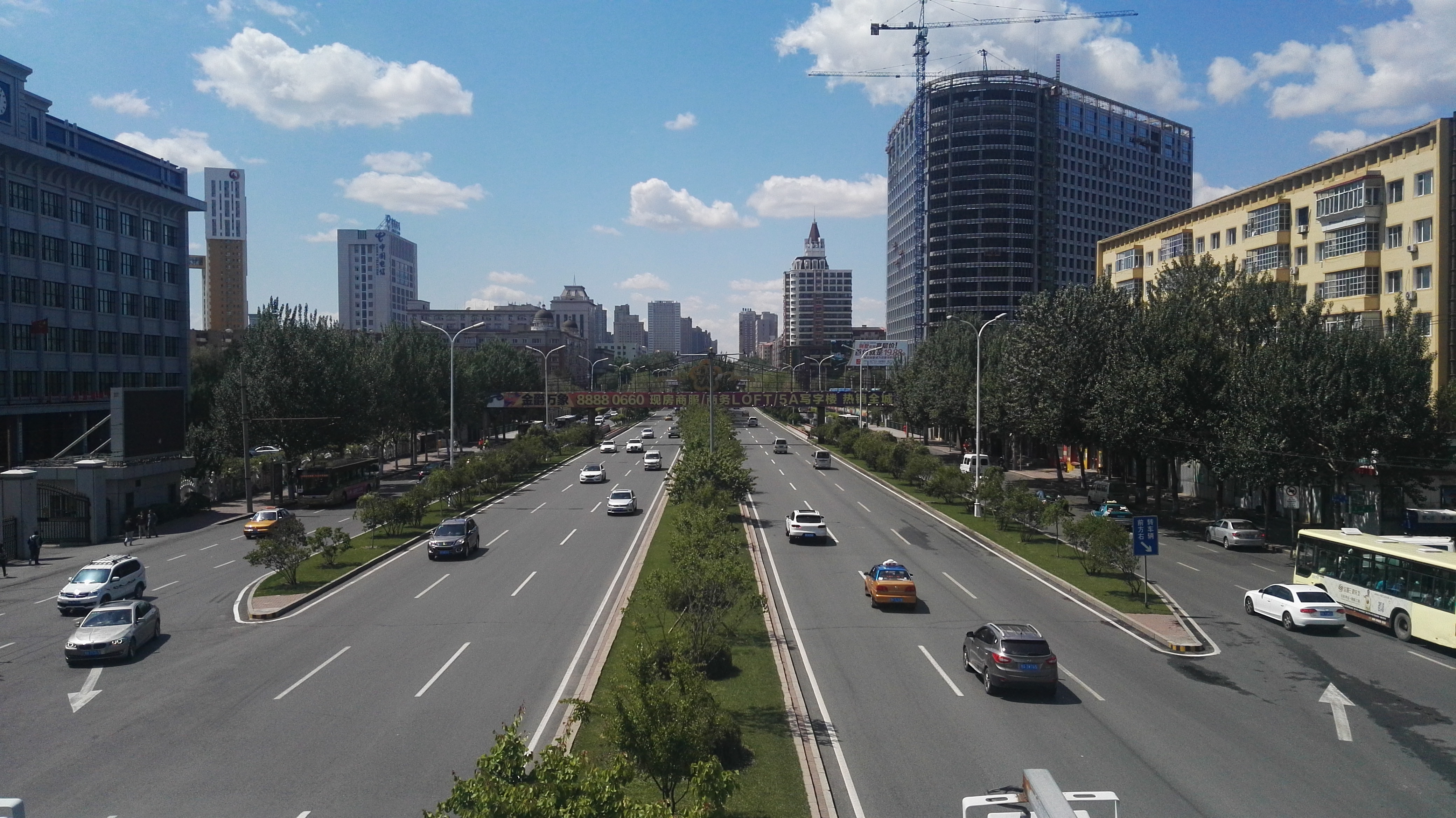 Hexing Road, part of south-west 2nd ring road in Harbin, Heilongjiang, China.